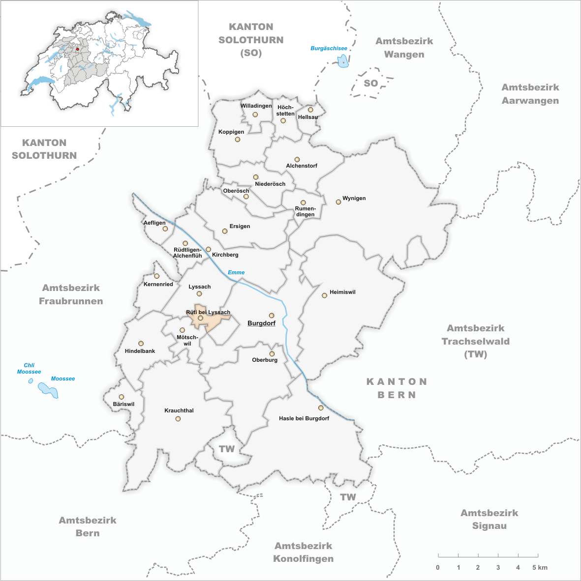 Municipality Rüti bei Lyssach